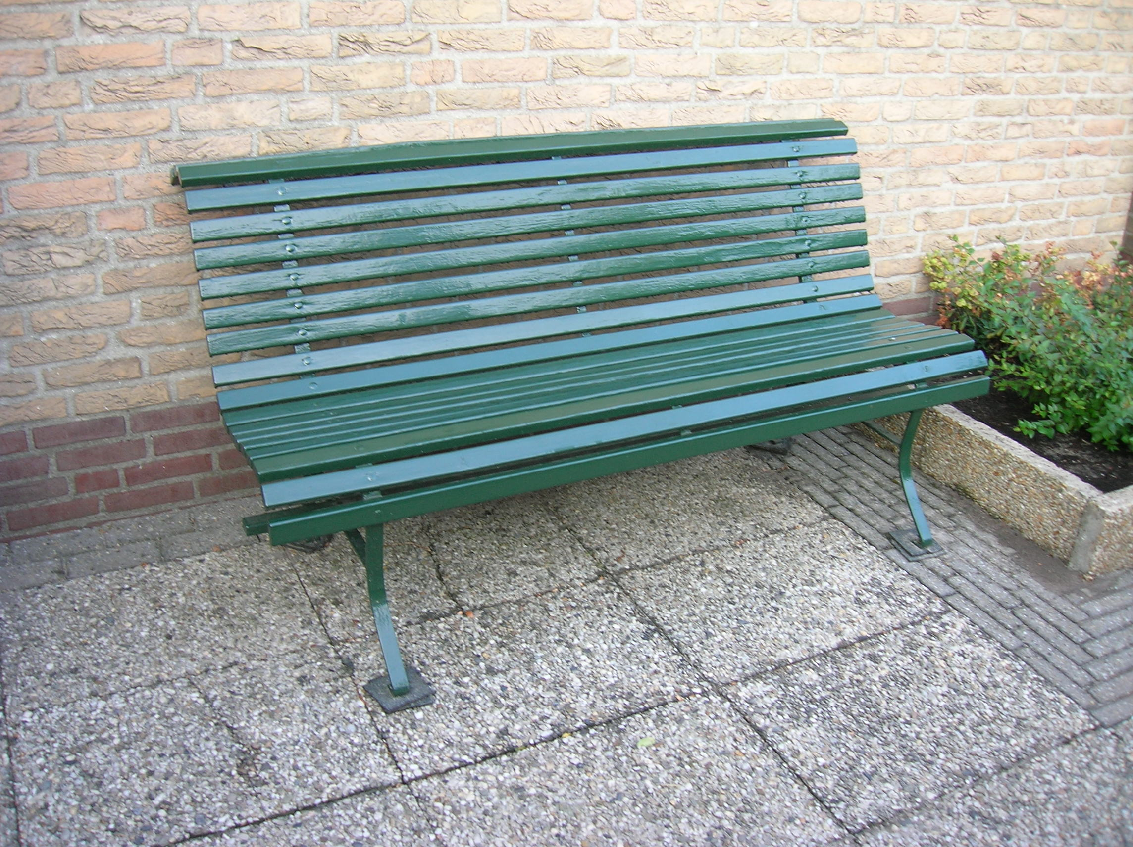 Typical garden bench.